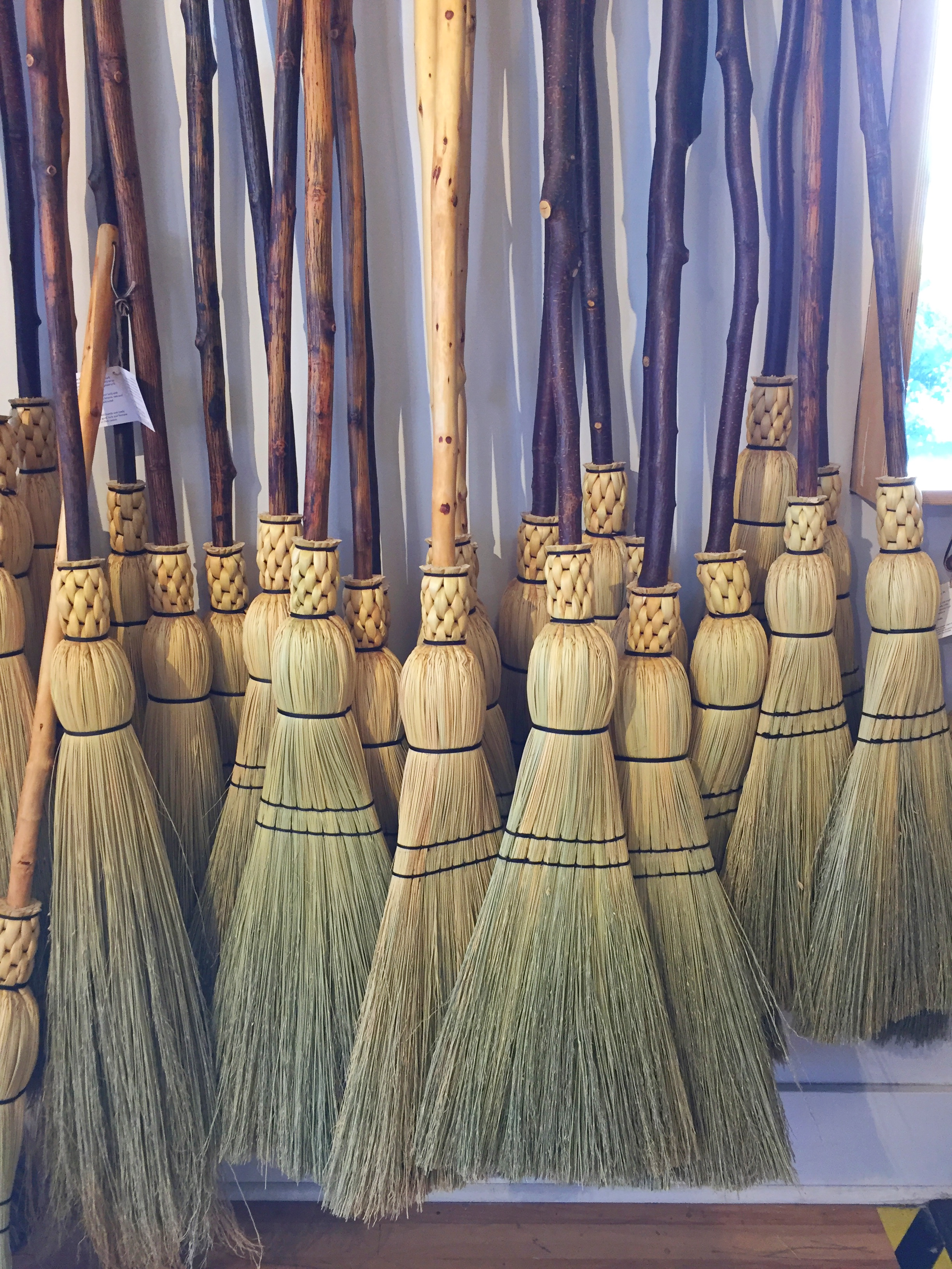 Brooms in display in a shop in the Granville island, Vancouver, BC, Canada.